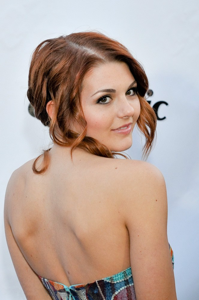 Jessica Lee Rose at the 2009 Streamy Awards.